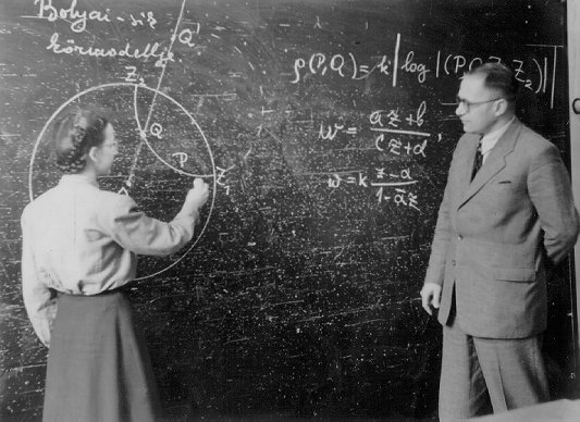 Béla Szőkefalvi-Nagy, the teacher, 1953